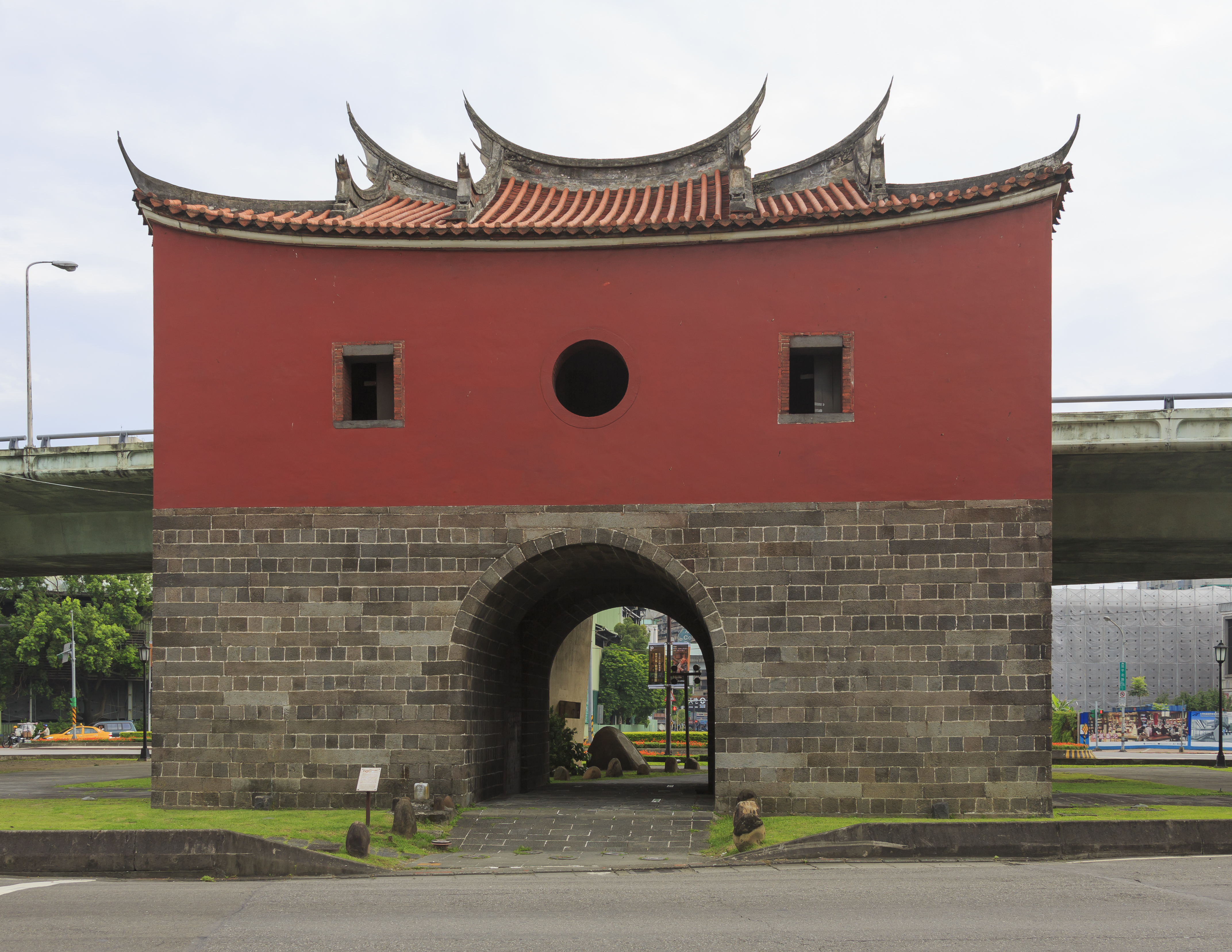 Taipei, Taiwan: The North Gate